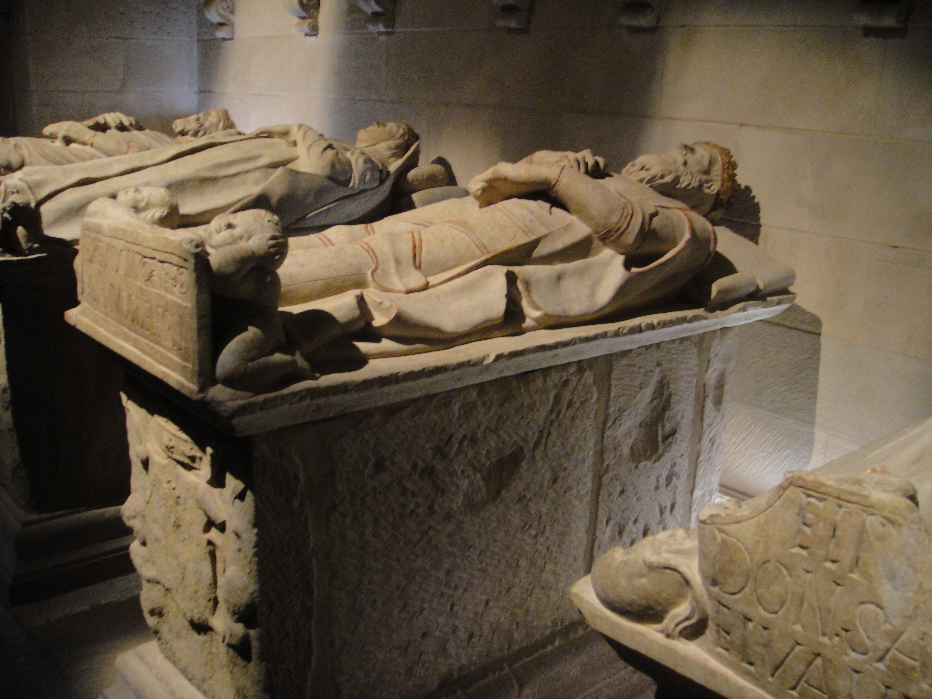 Tomb of the king Bermudo III of León, in the Monastery of Santa María la Real of Nájera, in Spain.